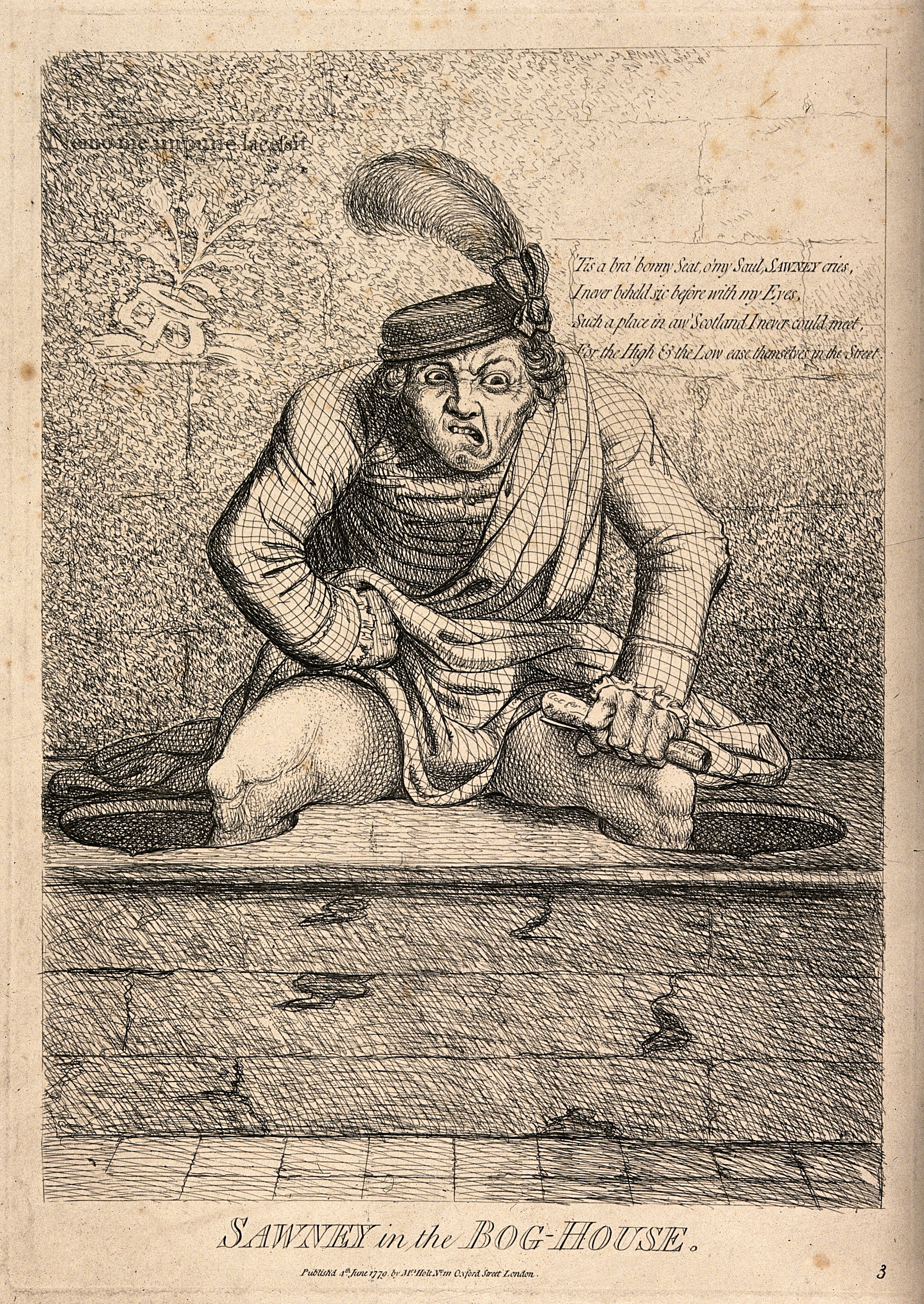 A Scotsman in Highland dress seated with his legs down two latrines, grasping the "Act for establishing Popery"; satirizing the Scottish rejection of the Catholic Relief Act. Etching, 1779. Iconographic Collections Keywords: toilets; Sawney; satires; sawney; act of state; jacobites; scotland - history - 18th cent; etchings